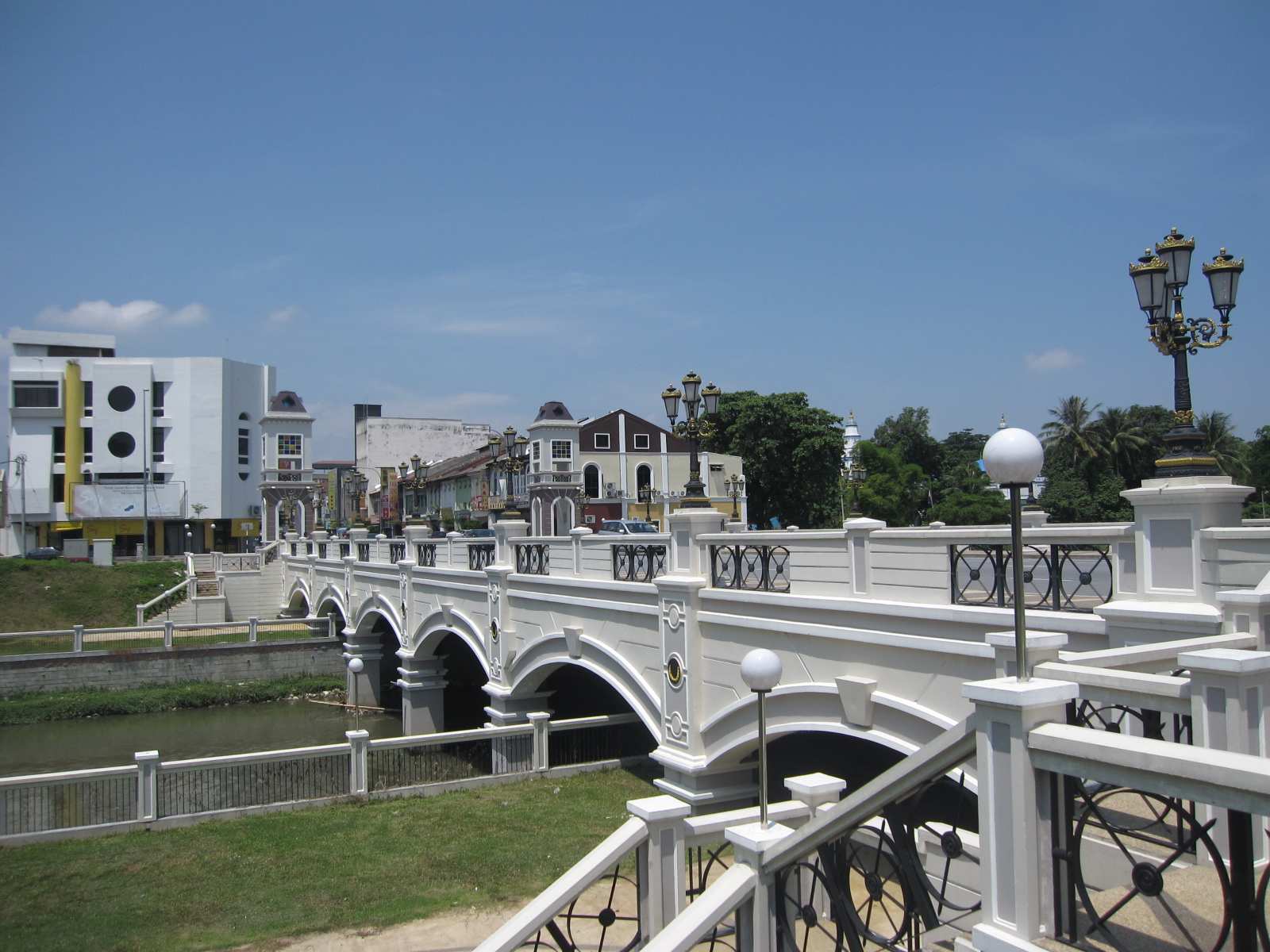 Bridge of the River Kinta (Sungai Kinta), Ipoh. The more southerly of Ipoh old town's two decorative bridges carries Jalan Sultan Iskandar over the Sungai Kinta (River Kinta), Ipoh.